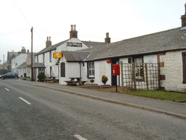 Clarencefield Post Office and The Farmers Inn Clarencefield is on "the low road" from Dumfries to Annan and Carlisle.